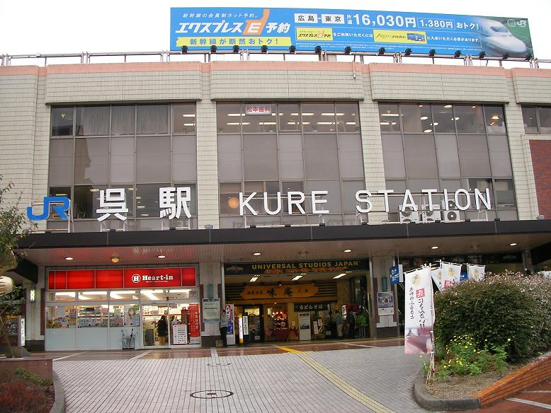 Kure train station, Japan